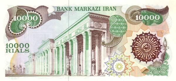 10000 IRR (1981 issue)